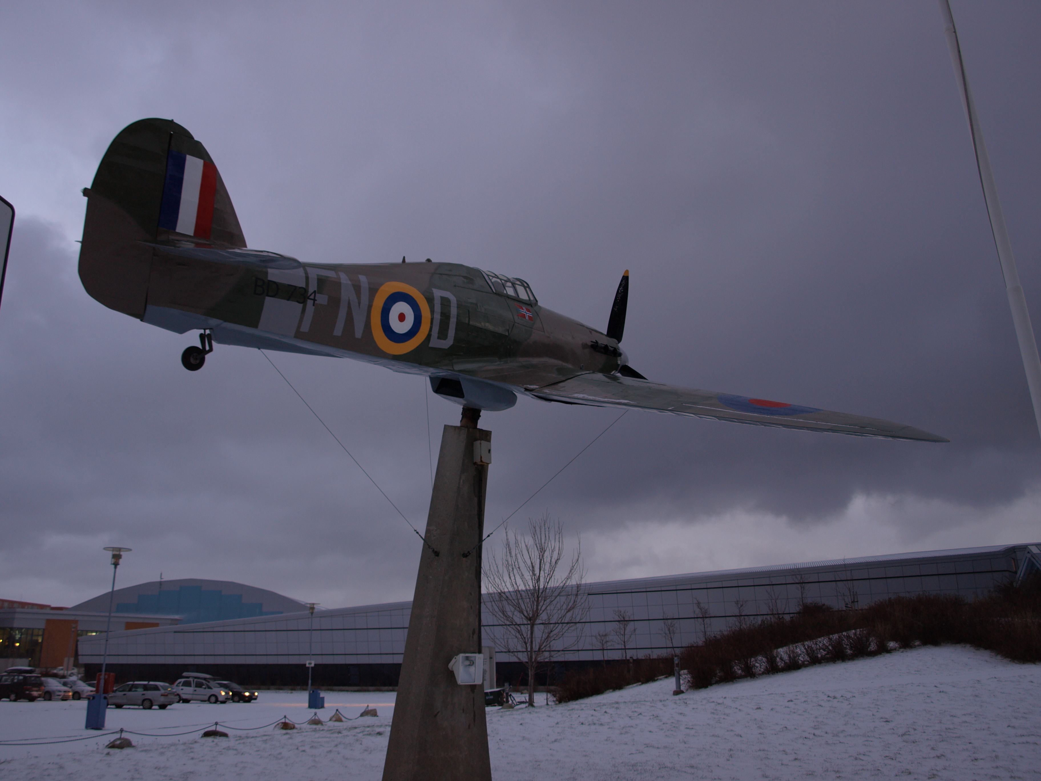 Hurricane on display outside Norsk Luftfartsmuseum